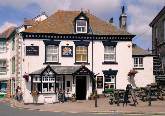 The King's Arms, Marazion